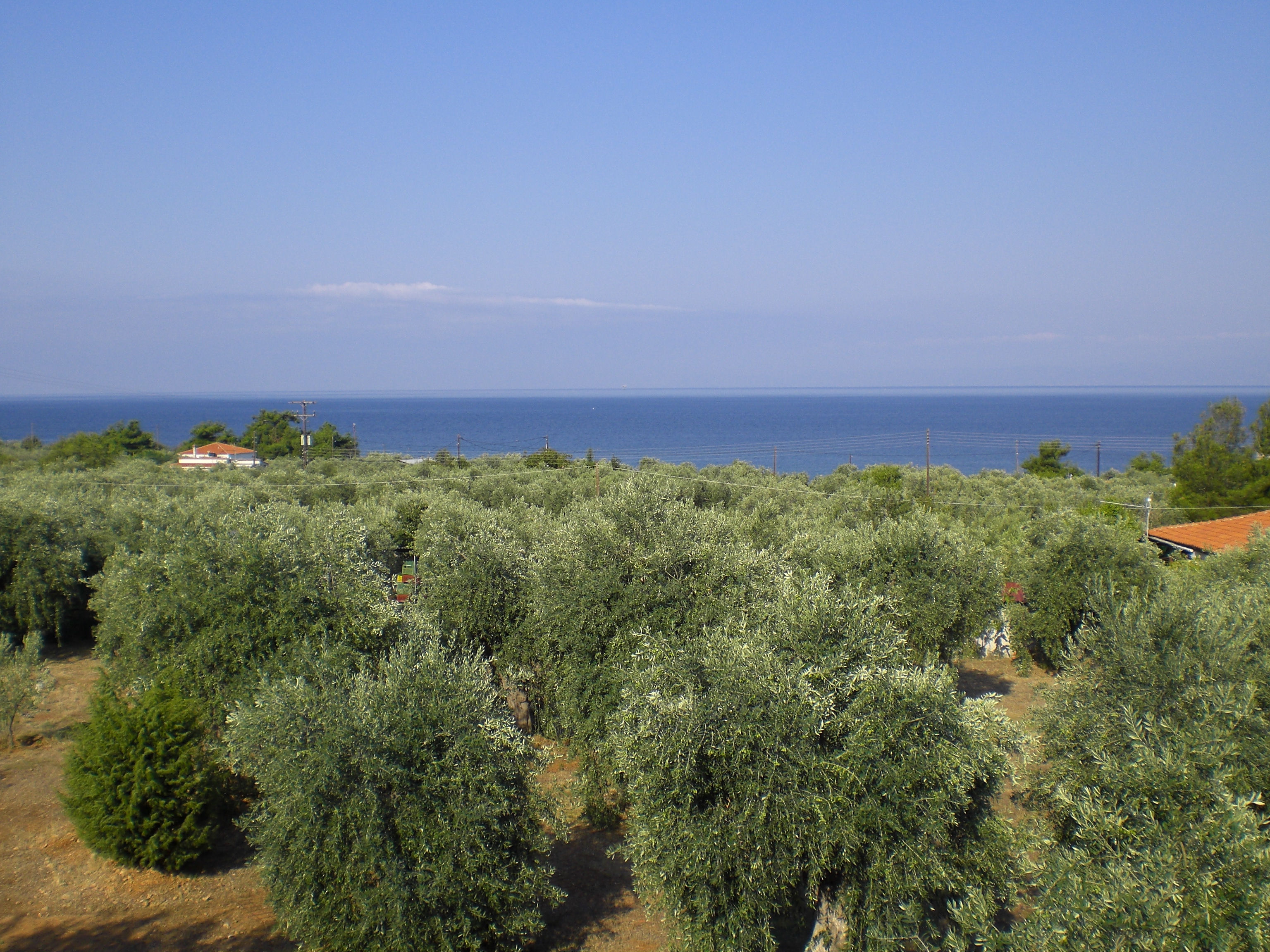 Olive groves in the south of Skala Kallirachi